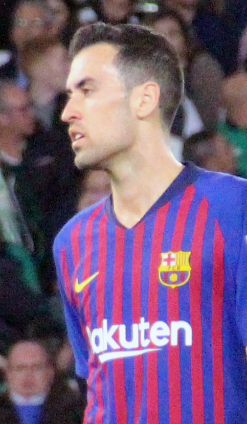 Sergio Busquets playing for FC Barcelona vs Real Betis, 17/03/2019